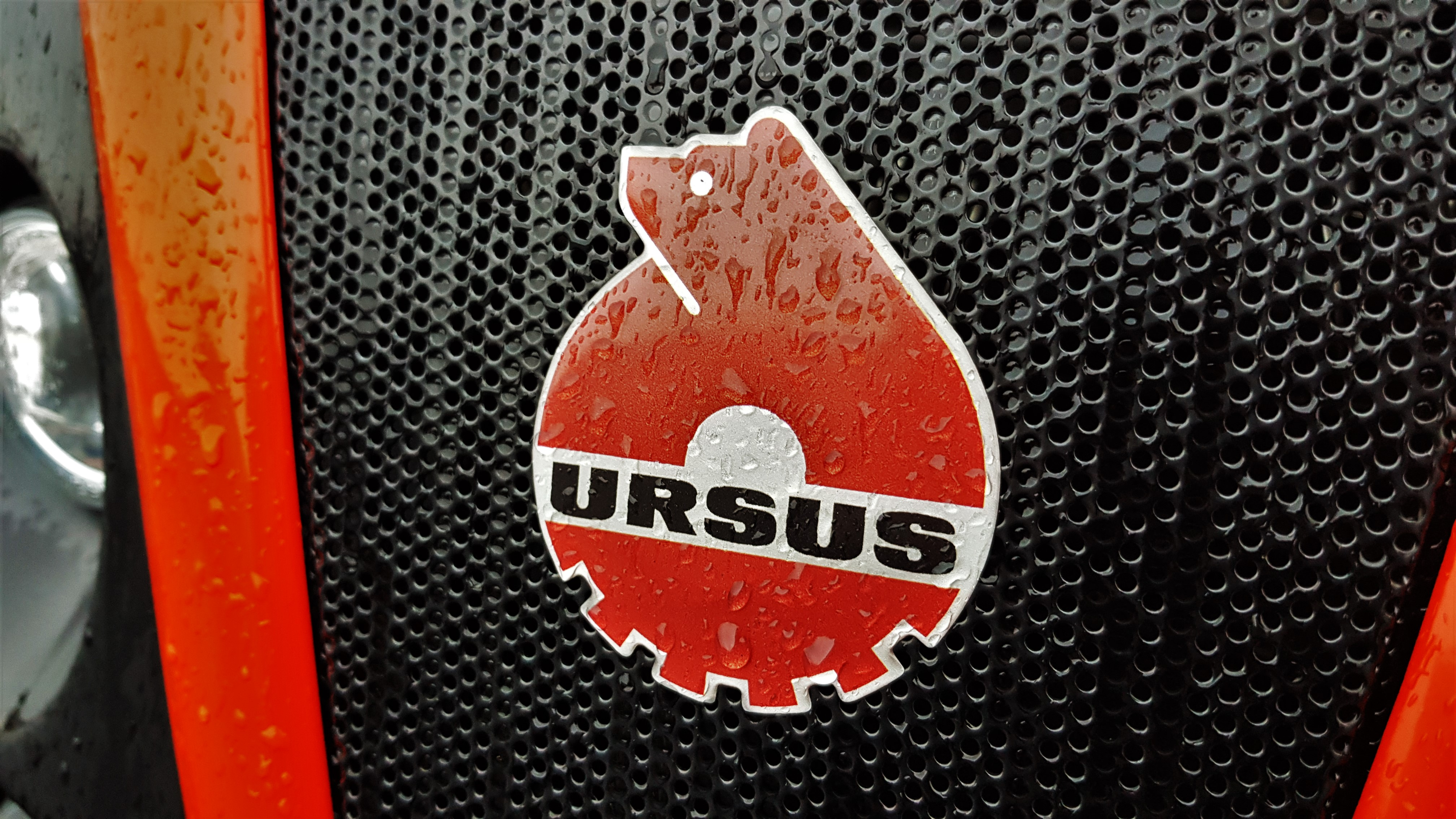 Badge of the Polish tractor manufacturer Ursus.